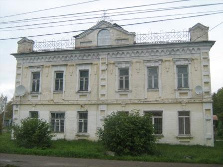 The house of Sheglov in Sonkovo